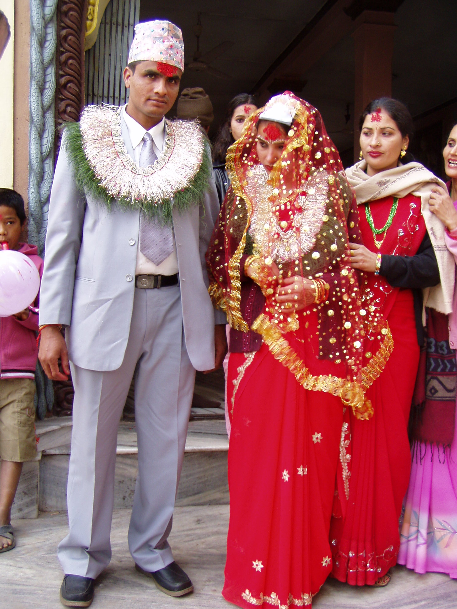 Young Hindu-couple after the wedding ceremony in Nepal.